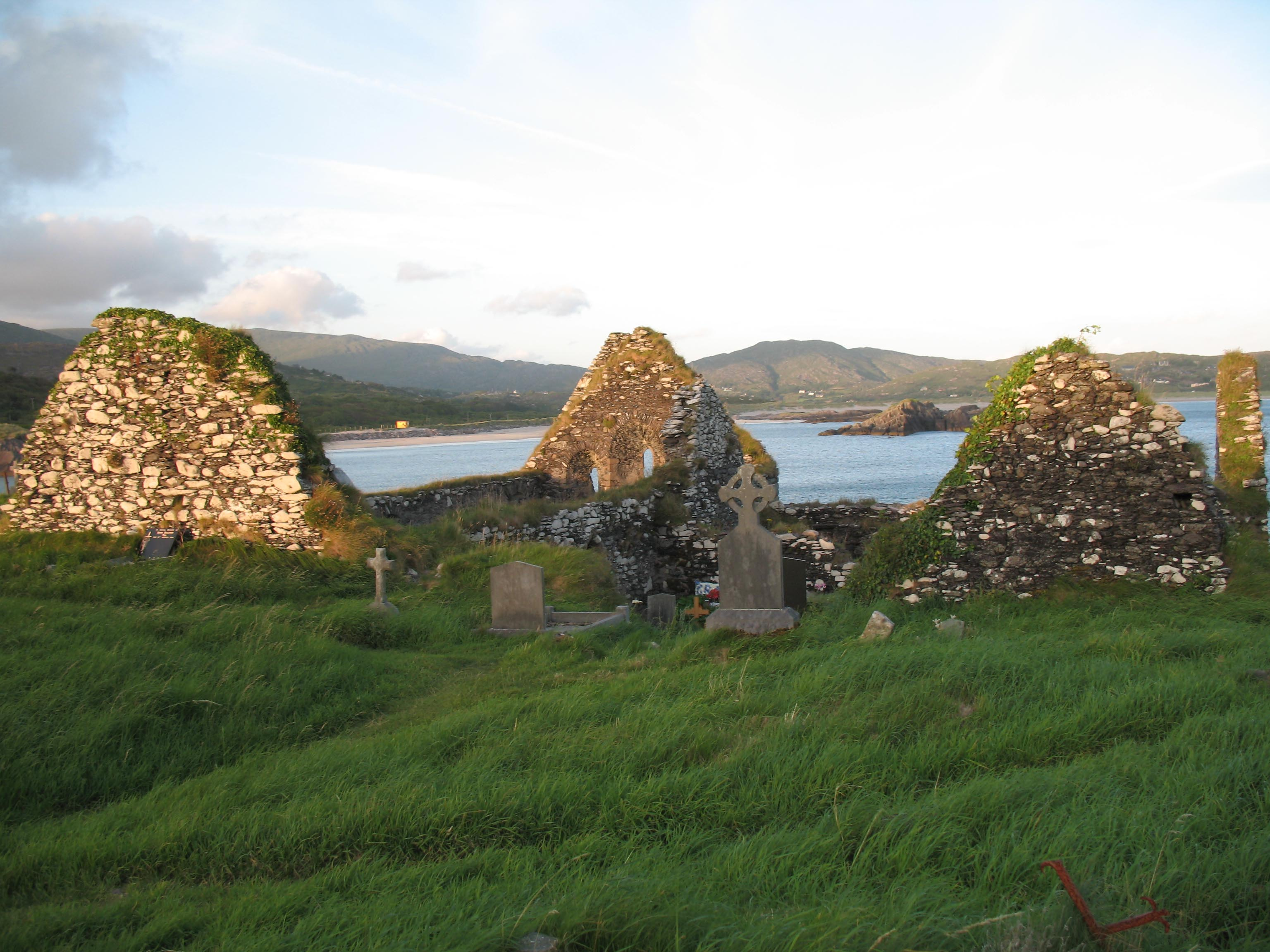 Derrynane Abbey on Abbey Island in County Kerry, Republic of Ireland.